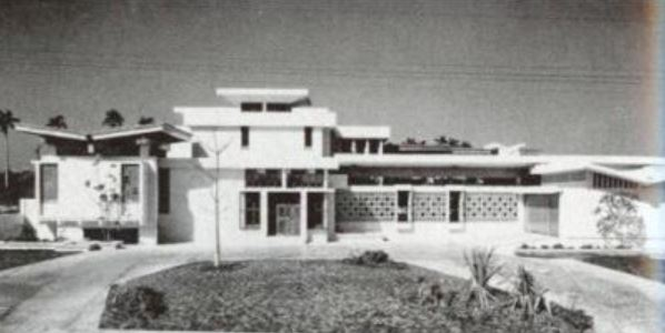 Mario Romañach_Casa de Rufino Álvarez_1957